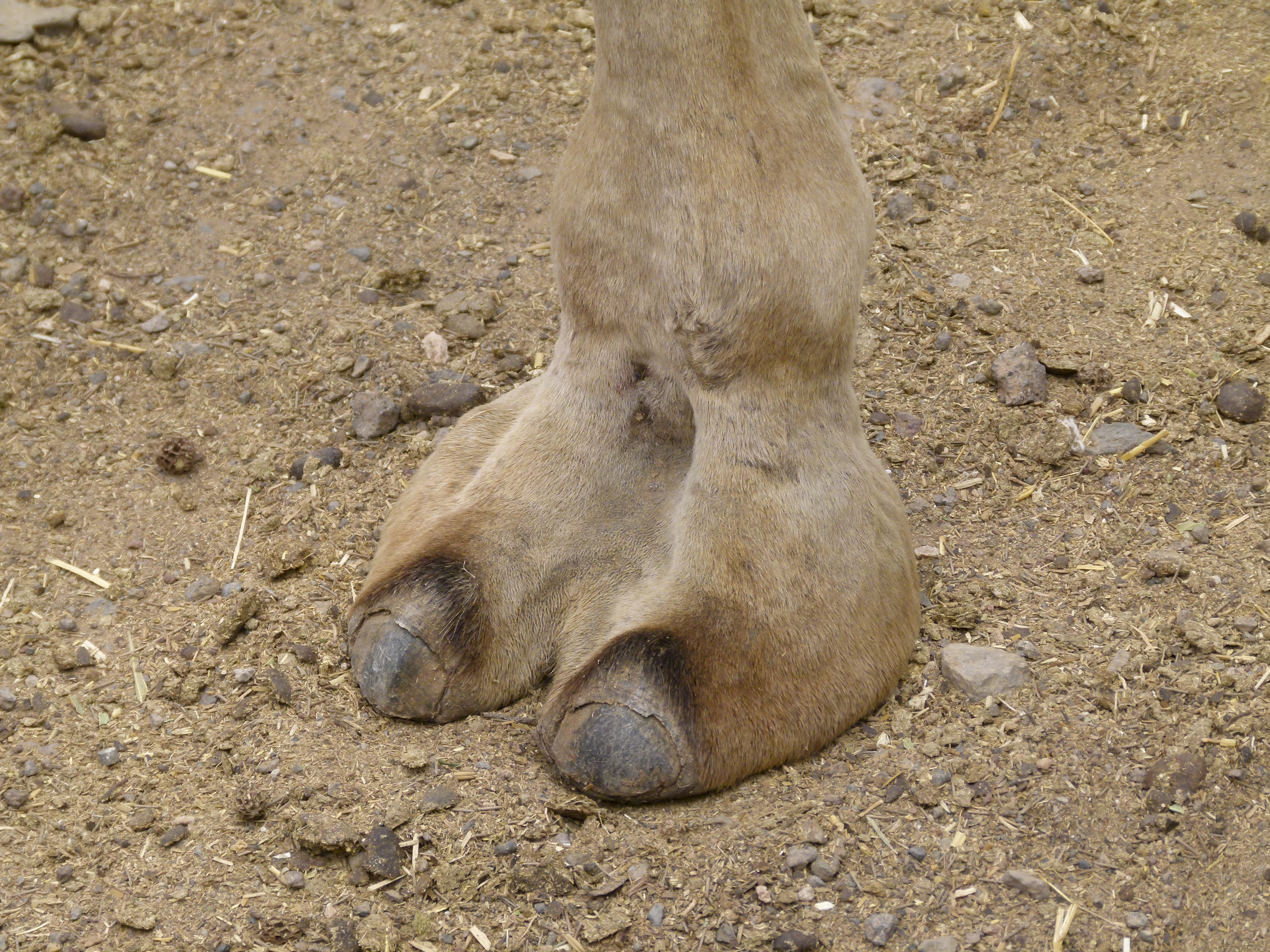 Dromedary forefoot (Camelus dromedarius) in the Oasis Park, La Lajita, Pájara, Fuerteventura, Canary Islands, Spain